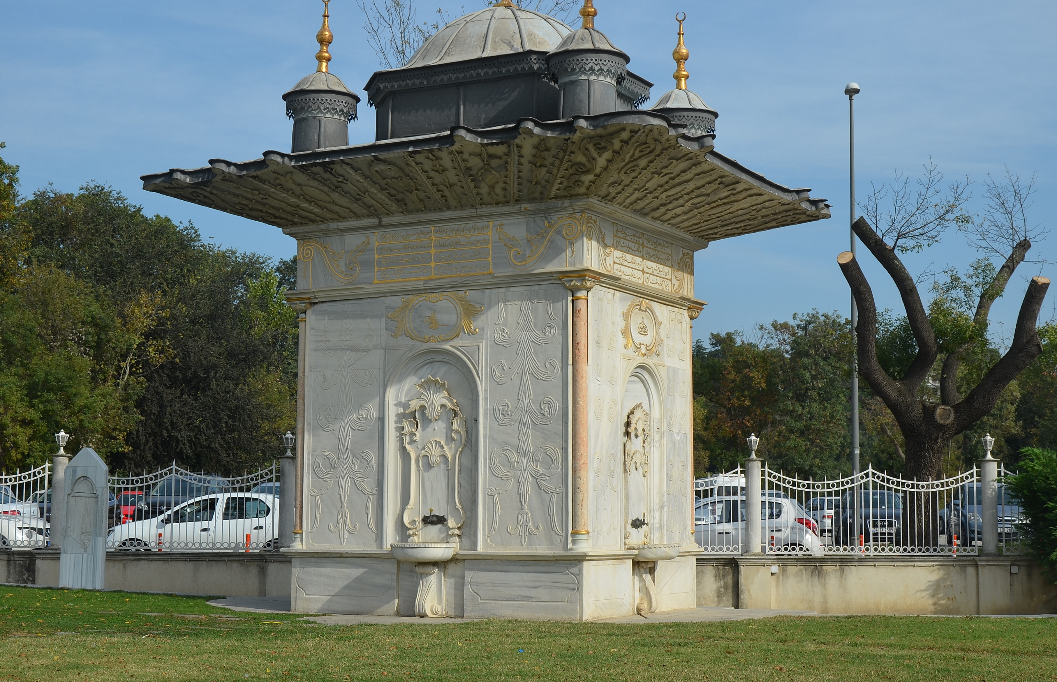 Mihrişah Valide Sultan Fountain at Küçüksu Pavilion